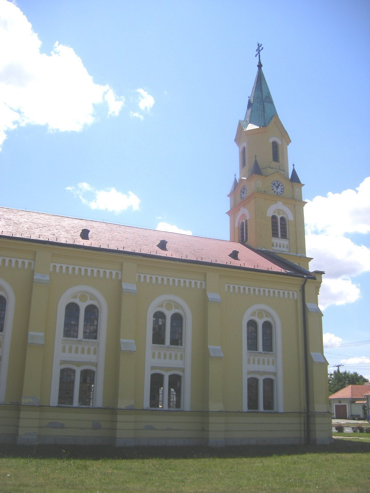 The lutheran church of Celldömölk, Hungary